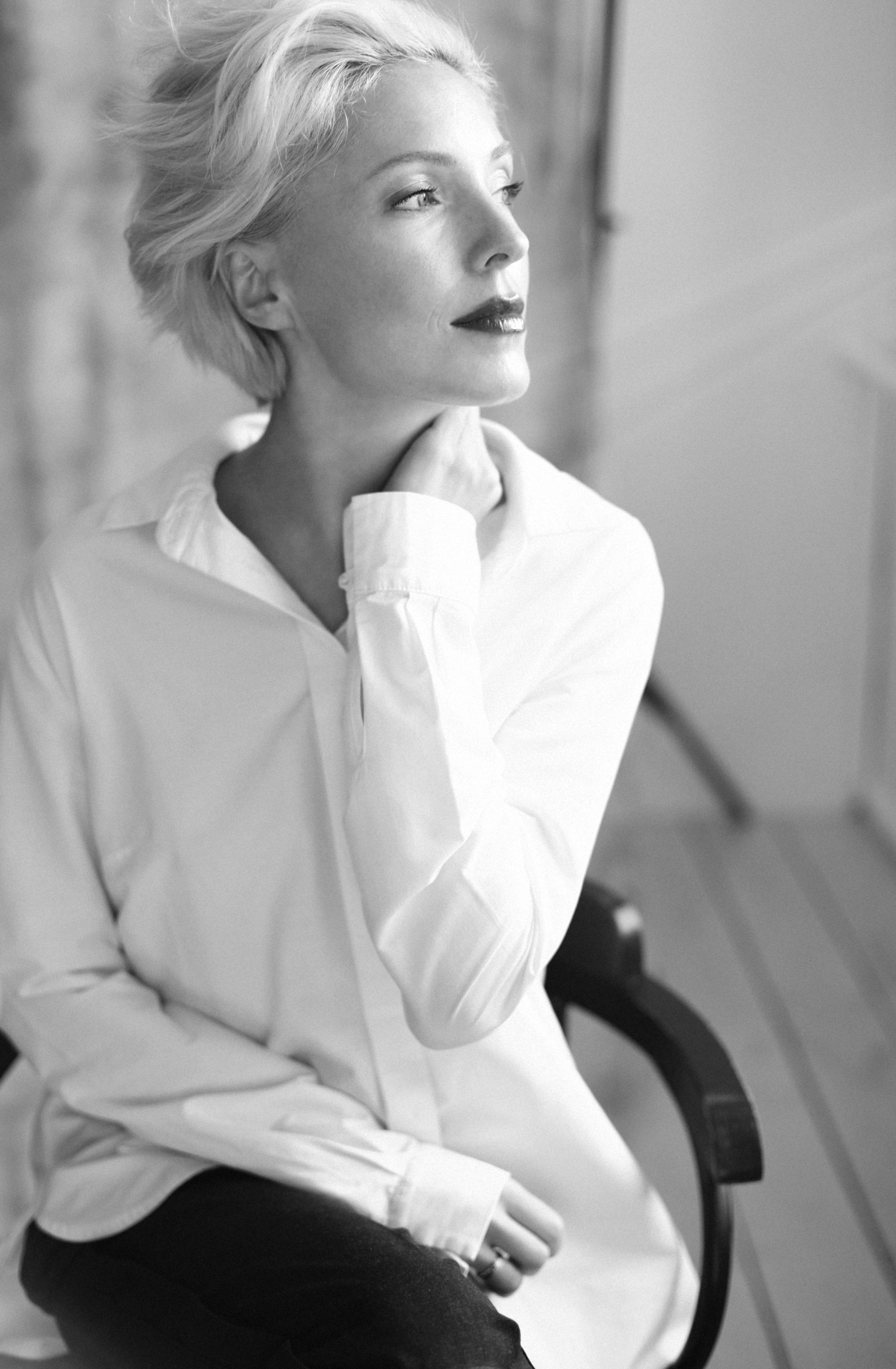 Singer Angelina Sergeeva 10/11/2017 photographer Lyudmila Senkina. Samara MAGNUM photo studio photospace